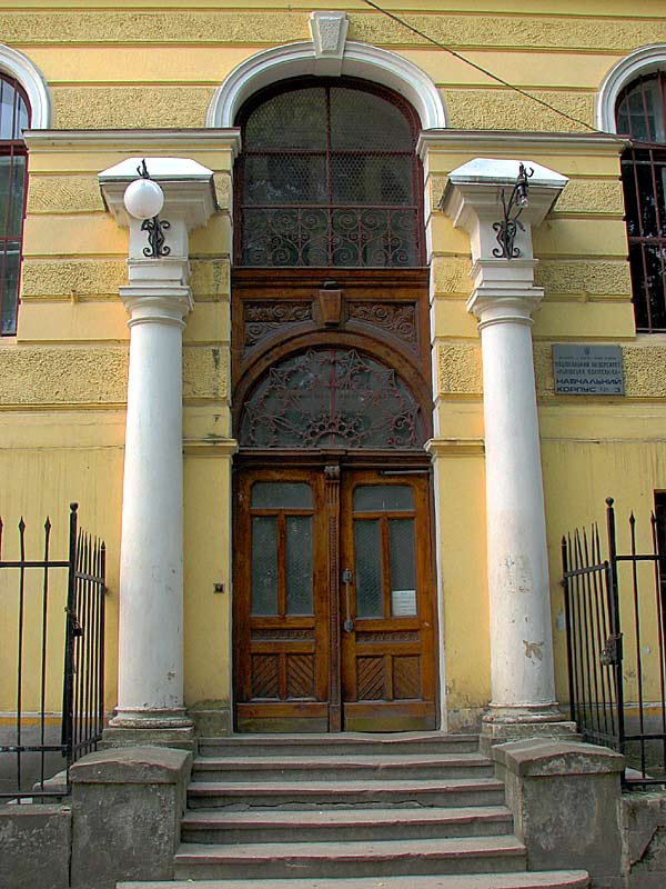 Monastery Sacre Coeur in Lviv, Ukraine. Entrance